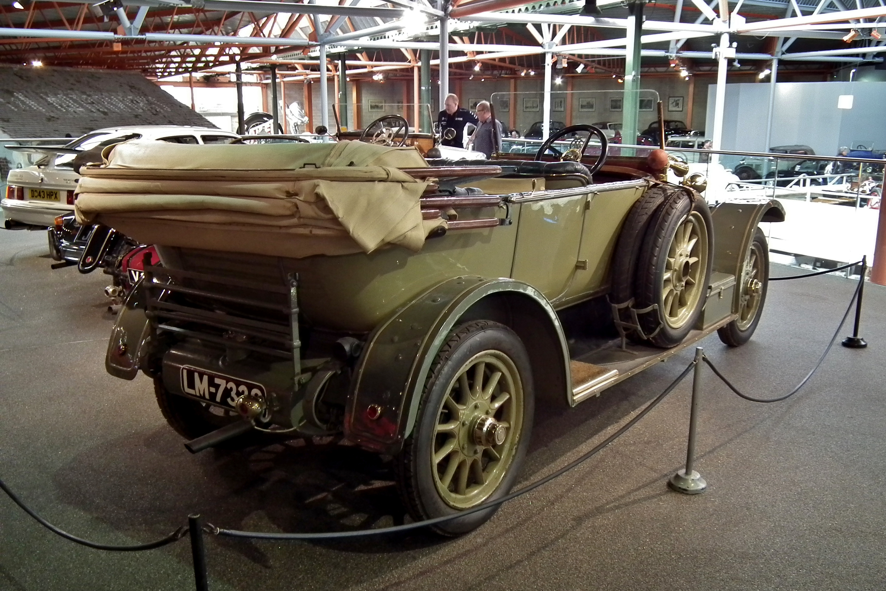 1914 Sunbeam 12/16hp. Taken at the National Motor Museum in Beaulieu, Hampshire, England.